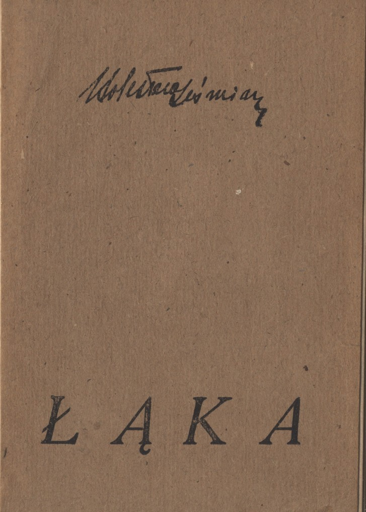 book